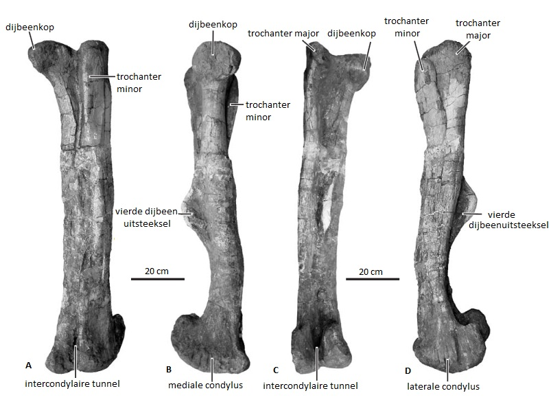 Left femur in 1. cranial, 2. medial, 3. caudal, 4. lateral views of Olorotitan arharensis Godefroit, Bolotsky & Alifanov, 2003 (holotype AEHM 2-845). Upper Cretaceous of Kundur, Russia